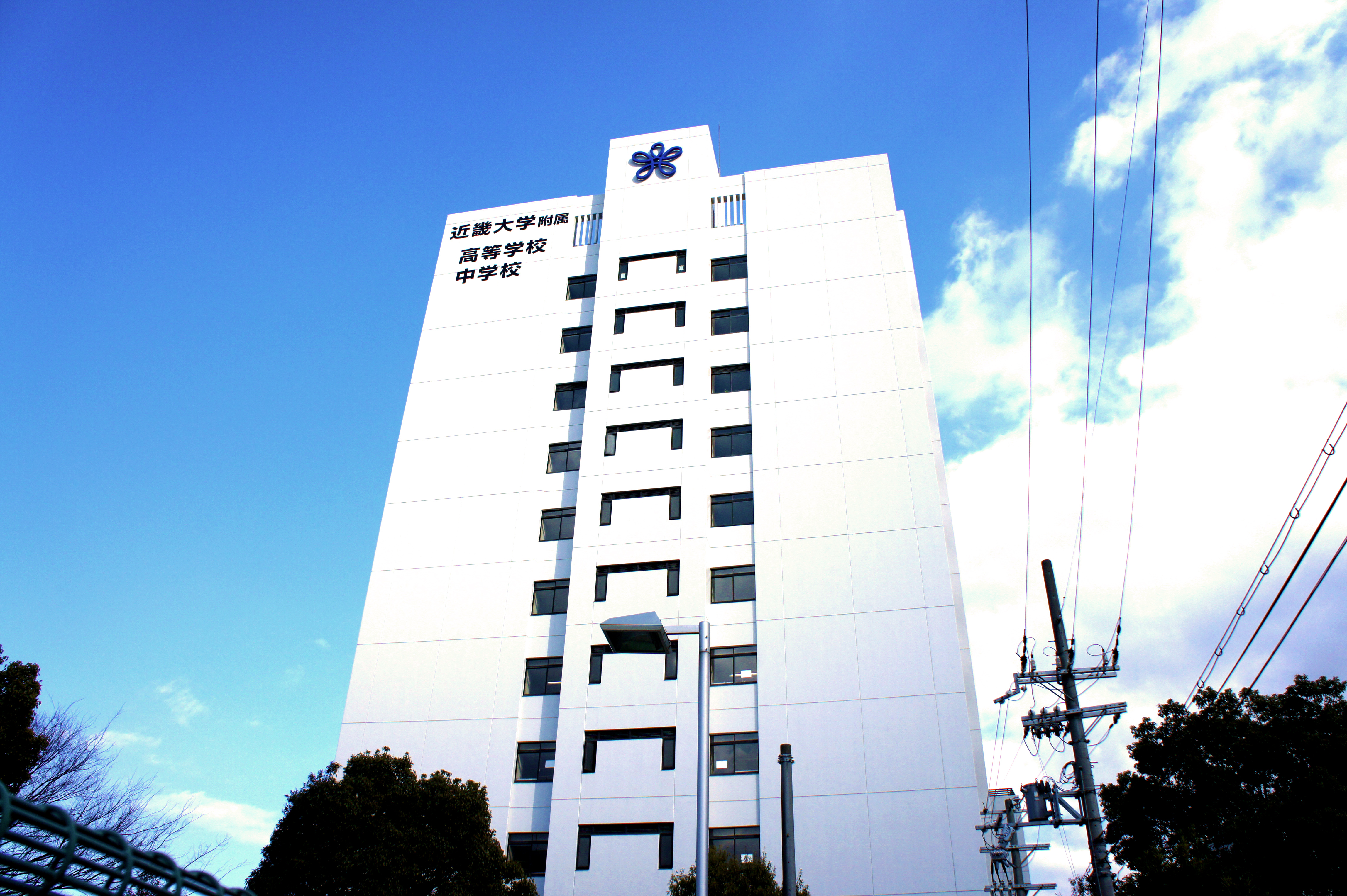 Kinki University High School,Kinki University Junior High School, 5-3-1 Wakaenishishinmachi Higashiosaka-City Osaka JAPAN.